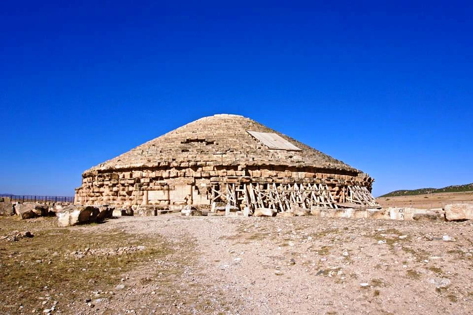 Amedghisen Batna